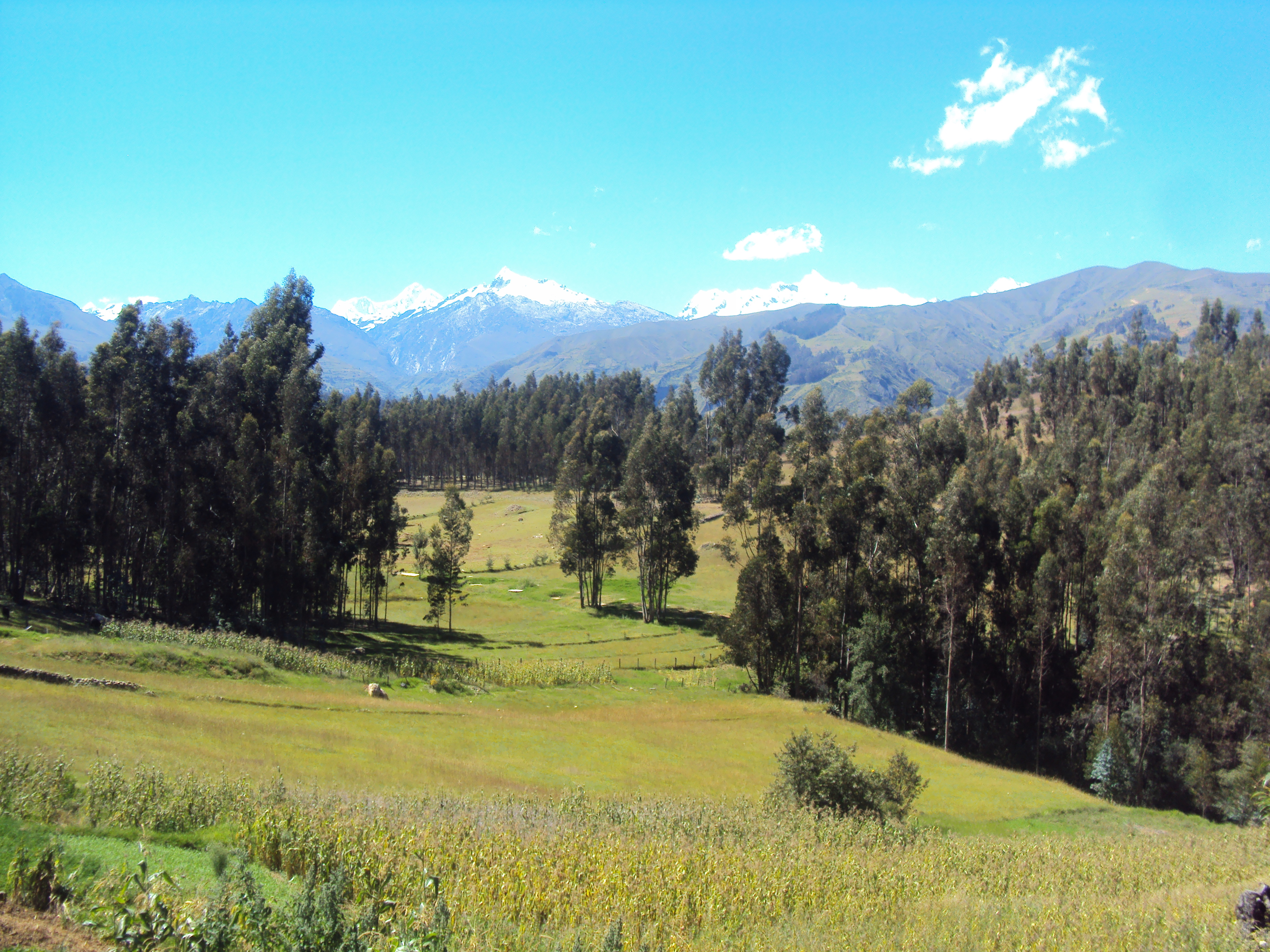 Prairie and forests in Huaraz